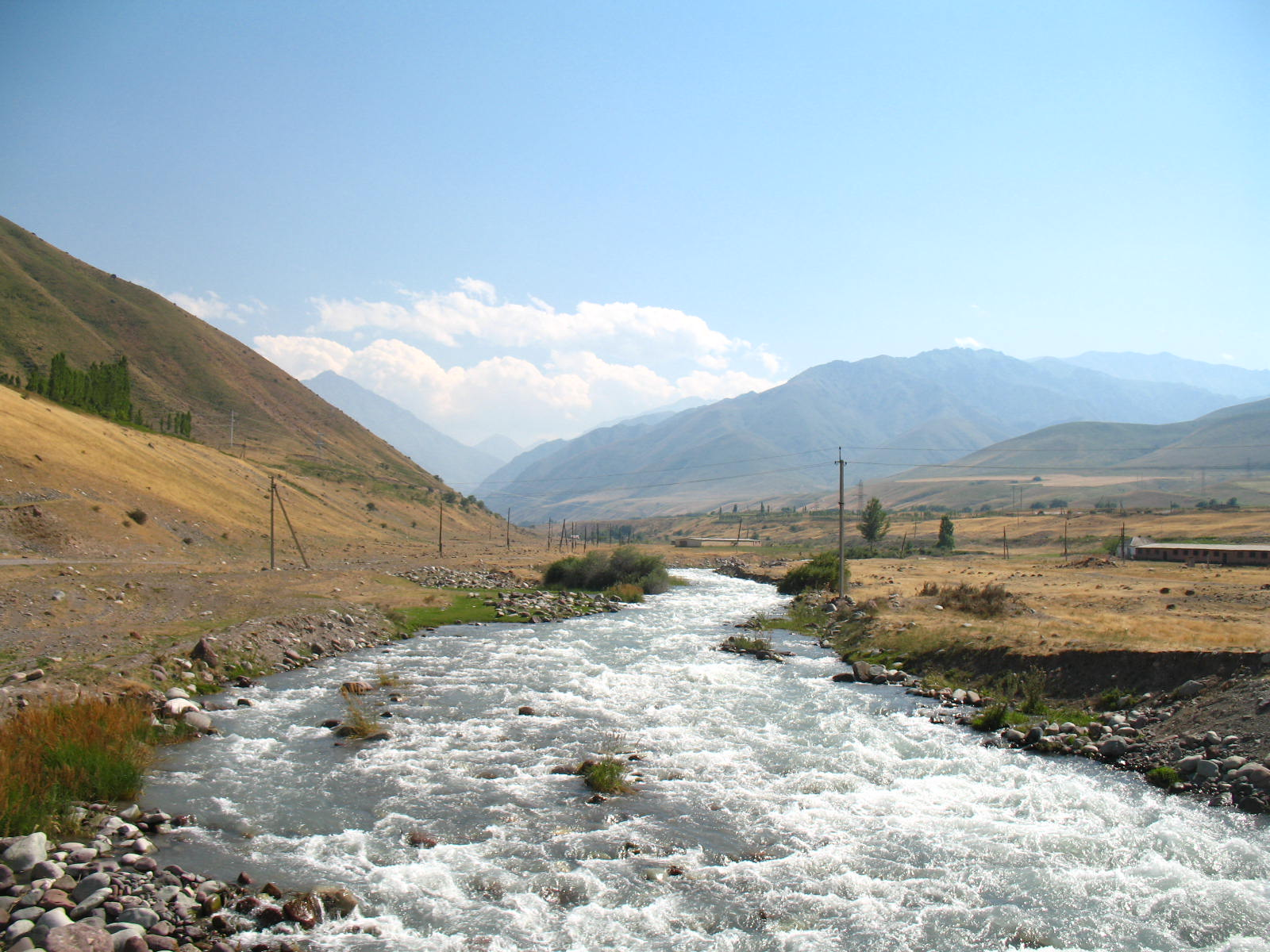 The Ak-Suu river south of Jardy-Suu in Moskva district, Chüy oblast, Kyrgyzstan